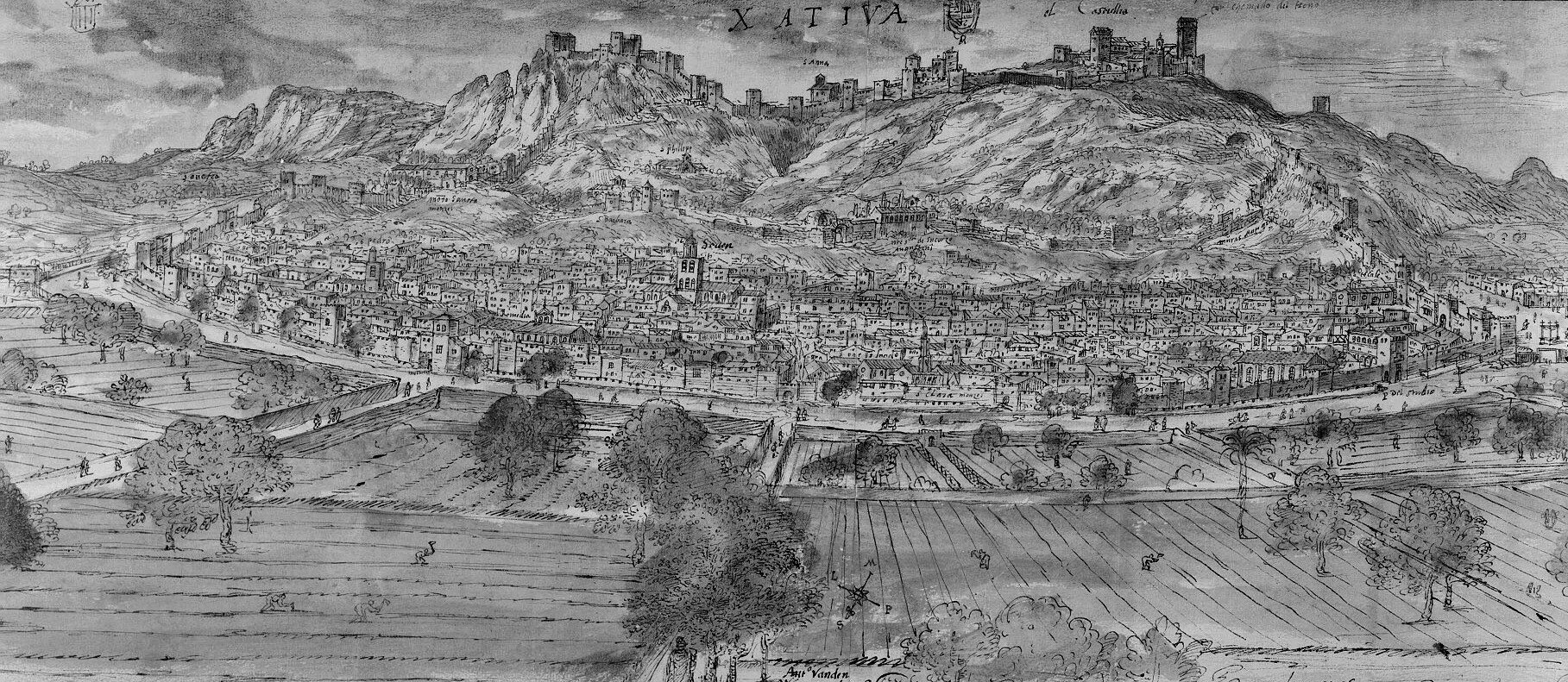 Xàtiva, Town and Twin Citadels, 1563